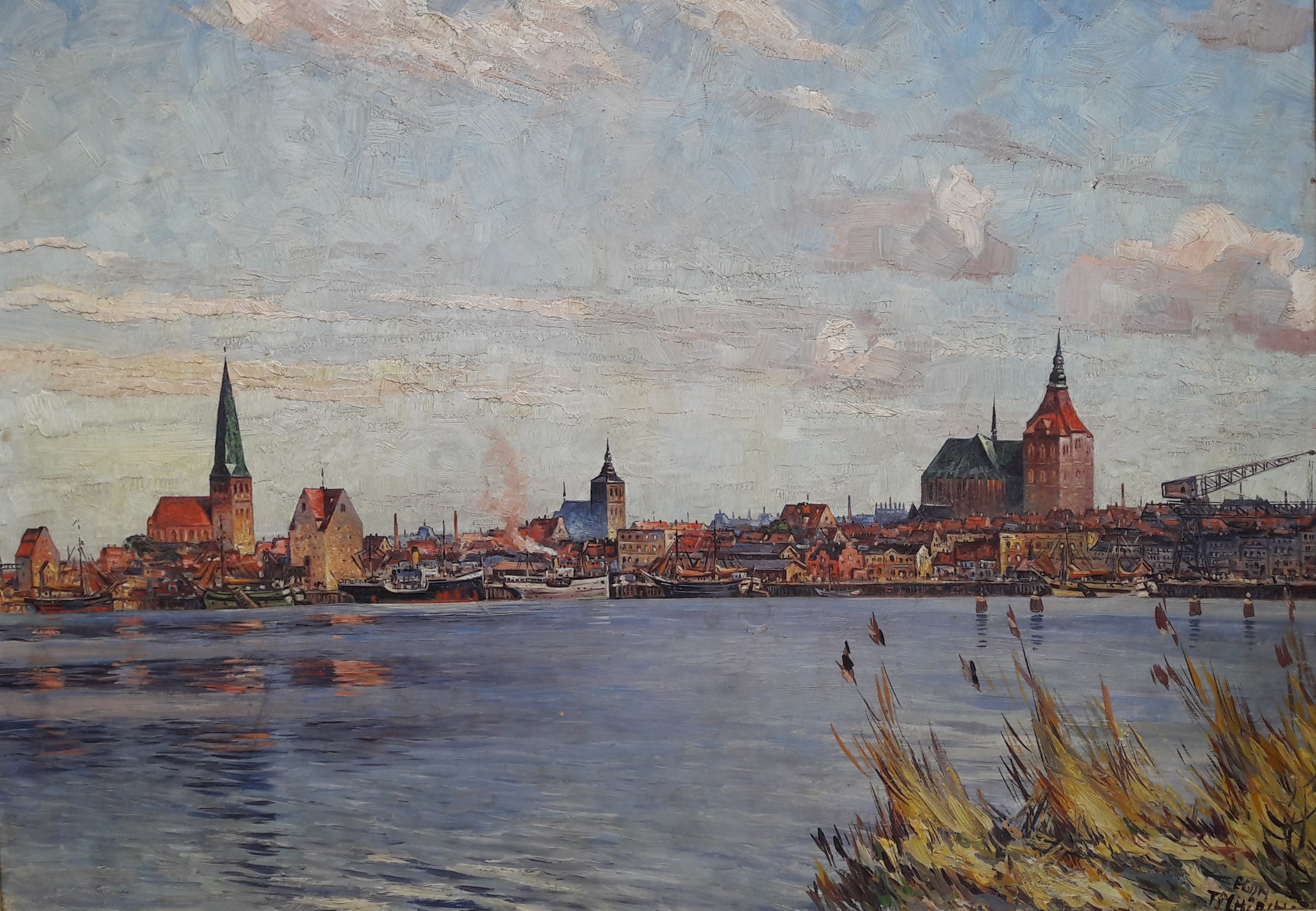 painting "Rostock - view from Gehlsdorf" (Egon Tschirch, 1936)